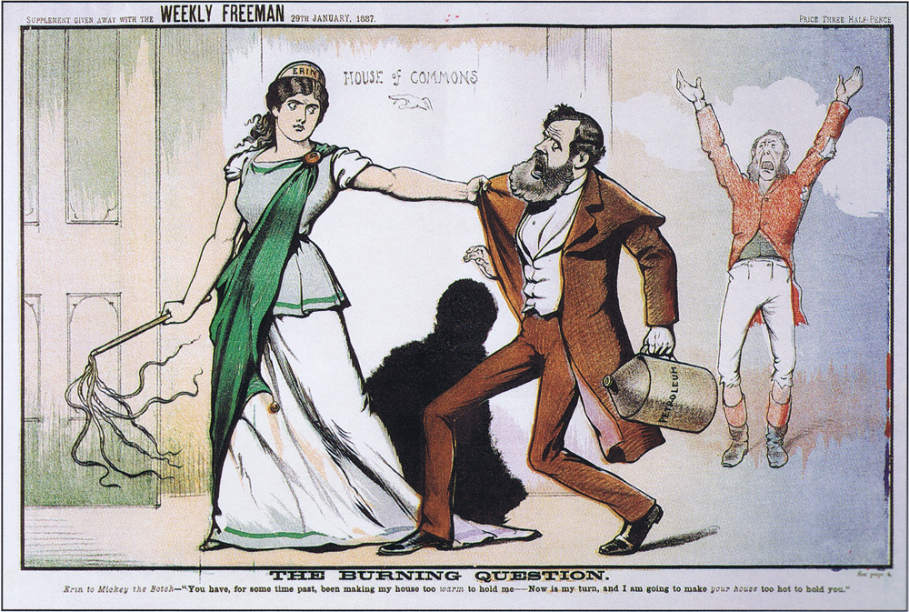 Erin, personification of Ireland, threatens Sir Michael Hicks Beach ("Mickey the Botch"), UK Irish Secretary, with a cat-nine-tails in the House of Commons